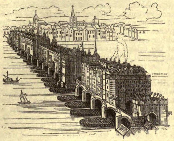 Woodcut/drawing of the Old London Bridge.